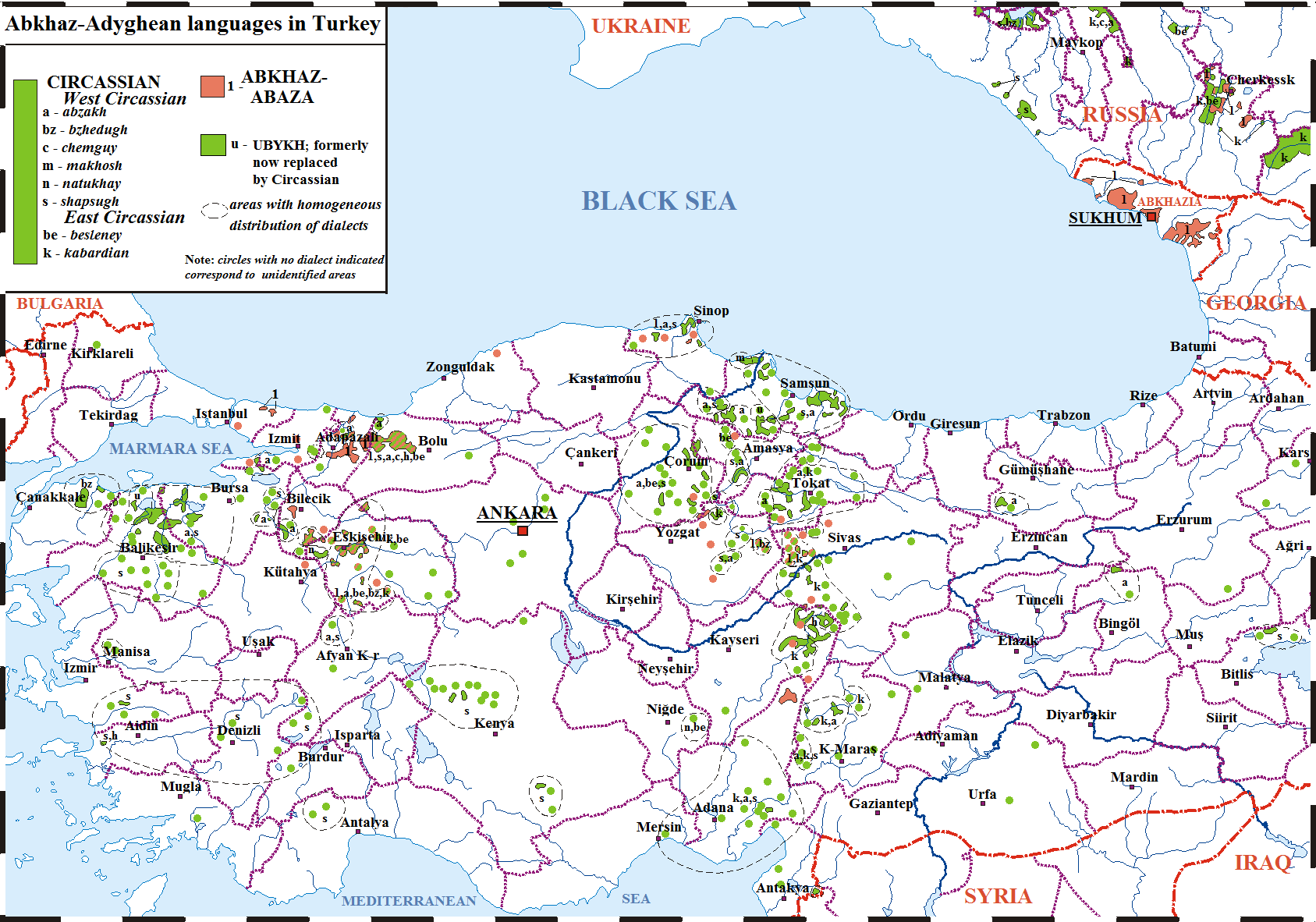 Circassian in Turkey; based on Lingvarium Project map [1]